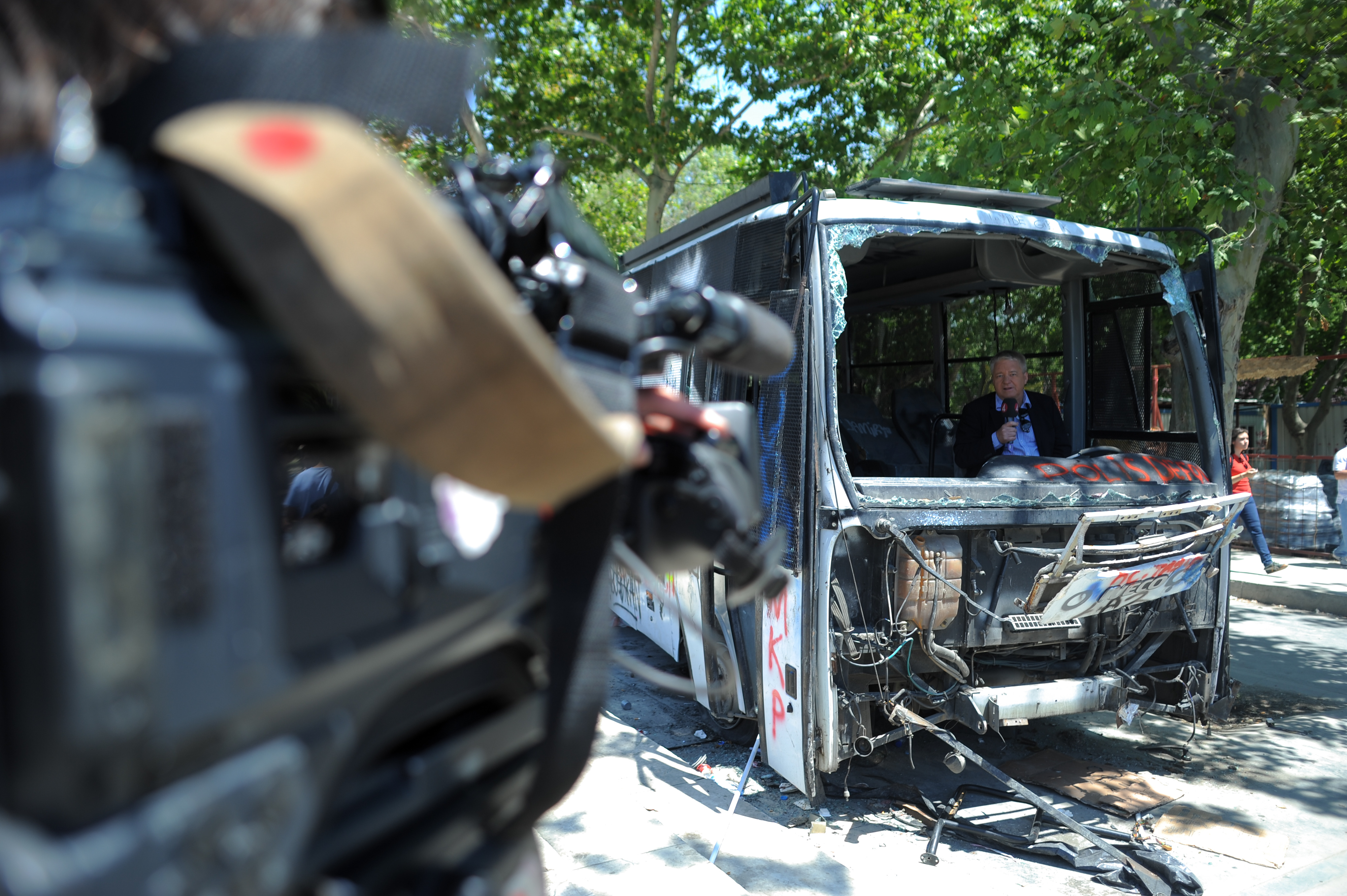 Close up view of Taksim square. Events of June 3, 2013.